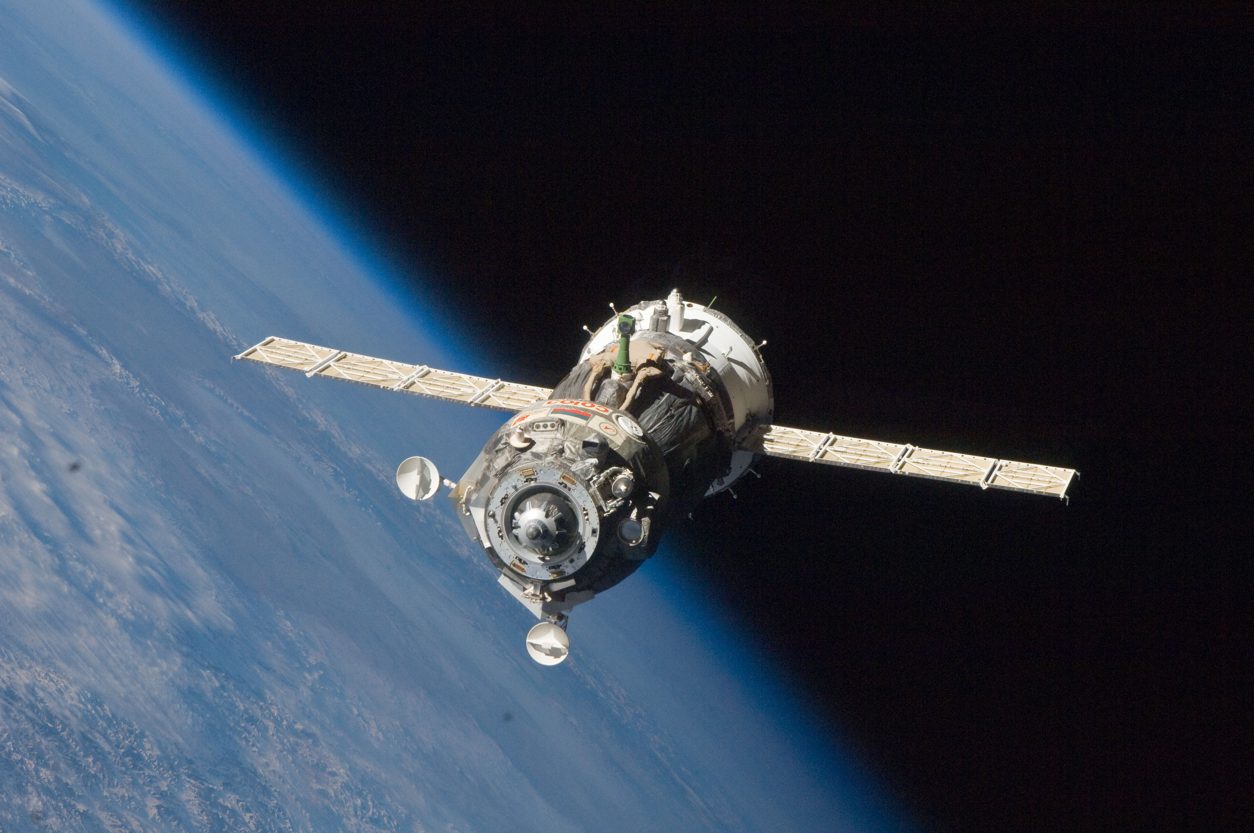 The Soyuz TMA-19 spacecraft departs the International Space Station on Nov. 25, 2010. Onboard are three members of Expedition 25 – NASA astronaut Doug Wheelock, commander; along with NASA astronaut Shannon Walker and Russian cosmonaut Fyodor Yurchikhin, both flight engineers. Yurchikhin, the Soyuz commander, was at the controls of the spacecraft as it undocked at 8:23 p.m. (EST) from the station's Rassvet module. The blackness of space and Earth's horizon provide the backdrop for the scene.